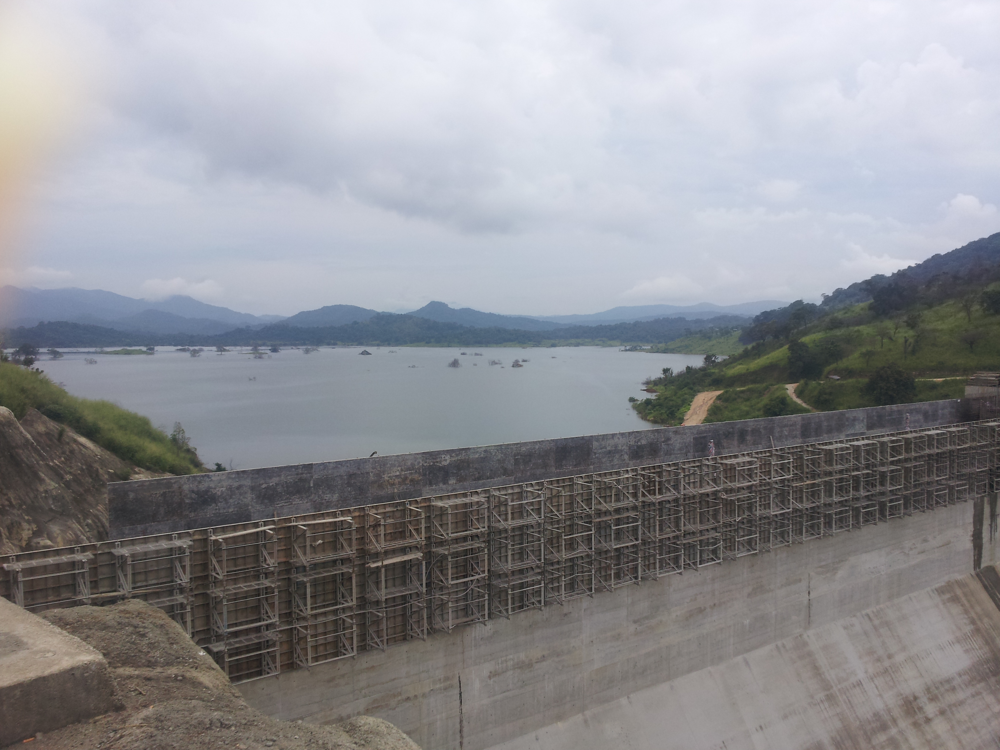 Moragahakanda reservoir at dam construction site 2017